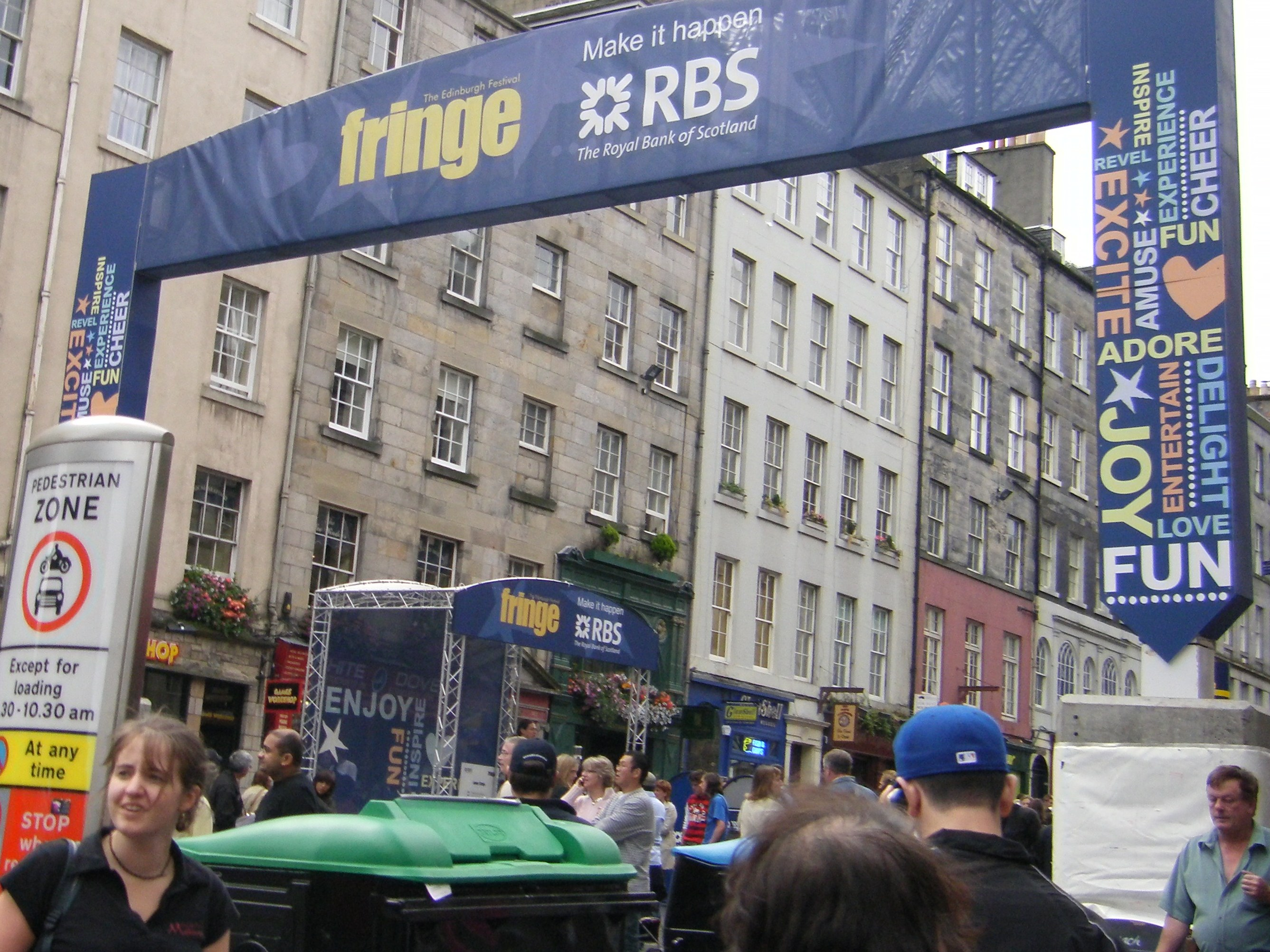 Gate for Edinburgh Festival Fringe